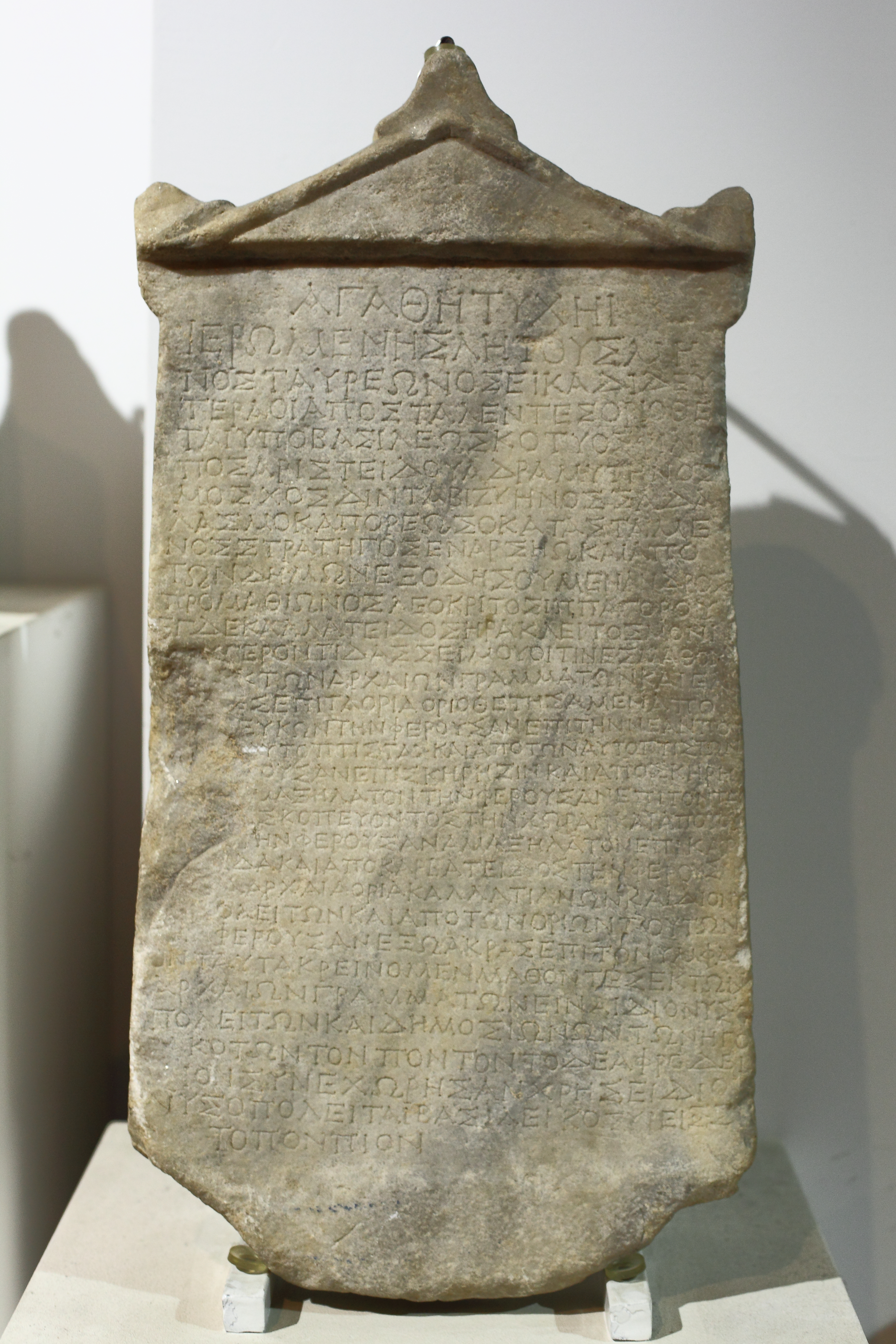 National Historical Museum of Bulgaria, in Sofia: Dionysopolis inscription of the thracian King Kotys, marble, 1st century BC, Dionysopolis (present Balchik). Fragment of the inscription: "In a year when the priestess of Latona was eponym , in 22 day of taureon, we the messengers horeoteti from King Kotis: adramitenetus Philip, son of Aristides, ....Mosh, son of Dinta and set for strategist in Arseos Sadala son of Mokaporis and from the lands of Odessos: Menander son of Promation and Leokrit son of Hepagor, and by Callatis: Heraclitus son of Menim and Gerontid son of the Sejm, we gathered with old documents and we went to the place itself / in the land / we placed the boundary on the road of .... one leading to Naples and Autoptistits on the road leading to the Skeredzis and from Skeredzis on the dirt road leading to Ta / ...? / and from there on the dirt road leading to Karbatis and from Karbatis on the road leading to the old borders between the inhabitants of Callatis and Dionysopolis and from these borders on the road leading out of Accra to Nimfeyl we ruled by complied with the old documents that all these lands belonging to residents of Dionysopolis and to the residents of Demosius / ..? .. / and the residents of Dionysopolis gave Afrodisiy be useful to King Kotis / ... /. "